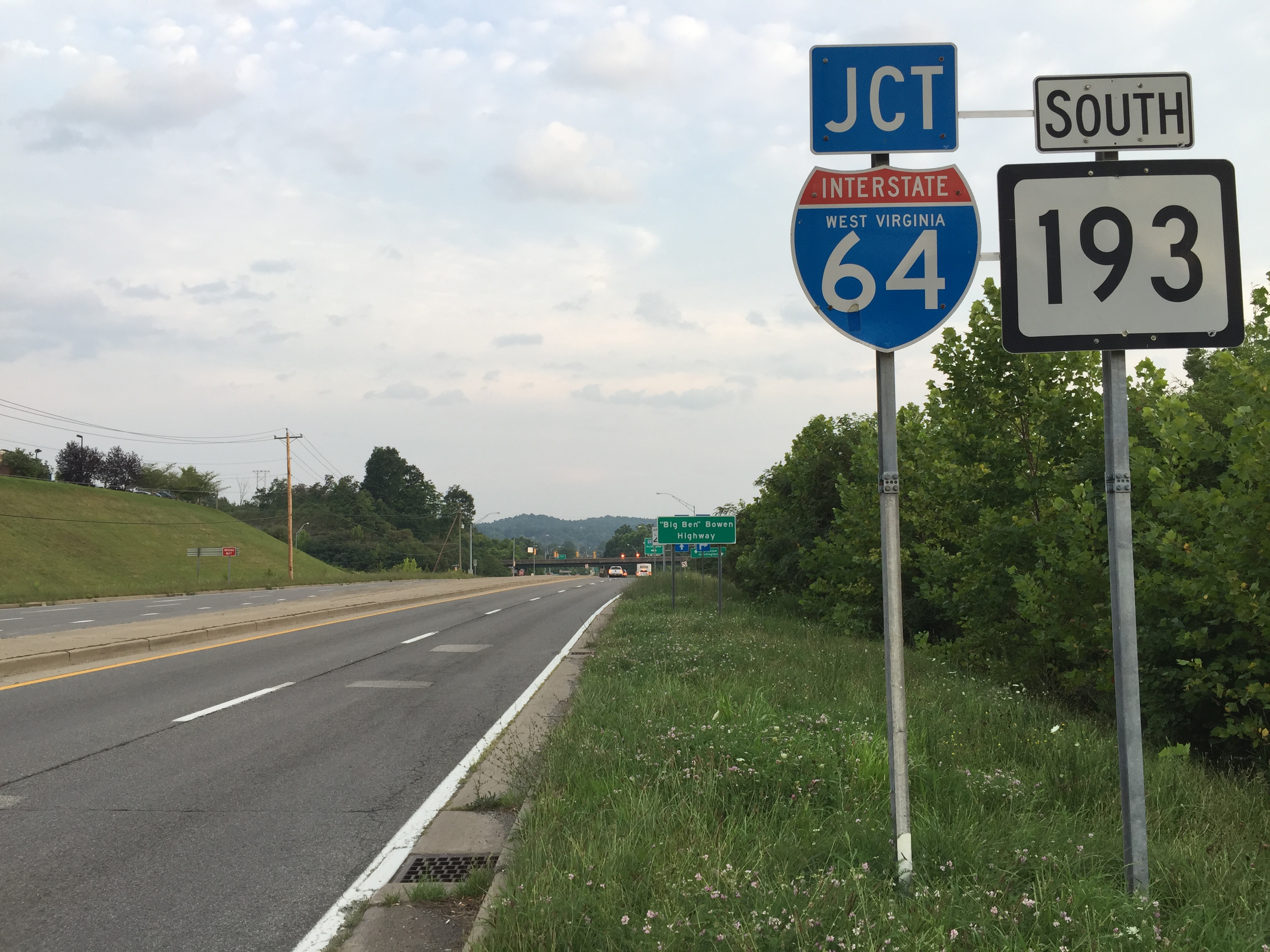 View south along West Virginia State Route 193 (Big Ben Bowen Highway) at Merrick Creek Road (Cabell County Route 19) in Barboursville, Cabell County, West Virginia